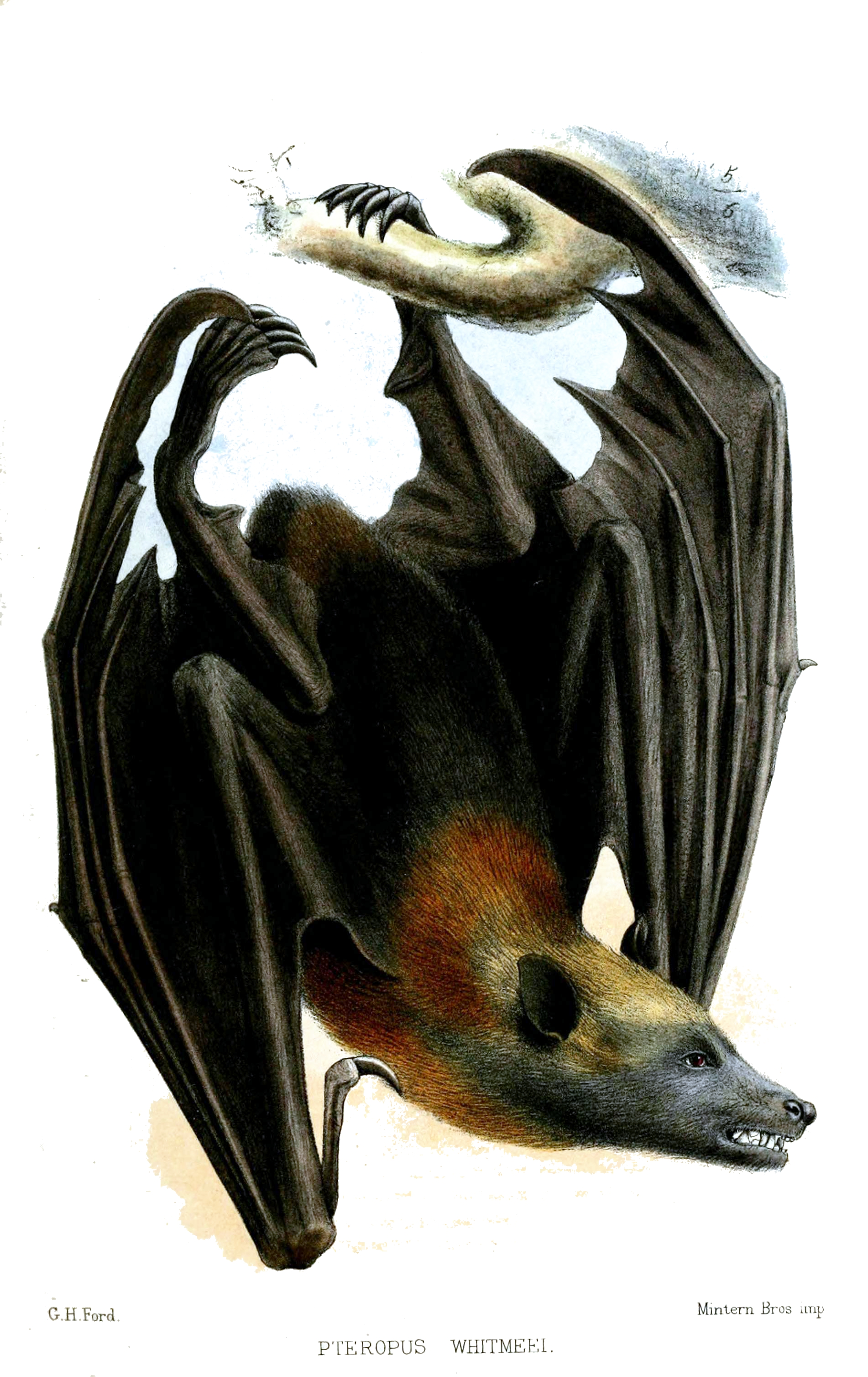 Pteropus whitmeei=Pteropus samoensis